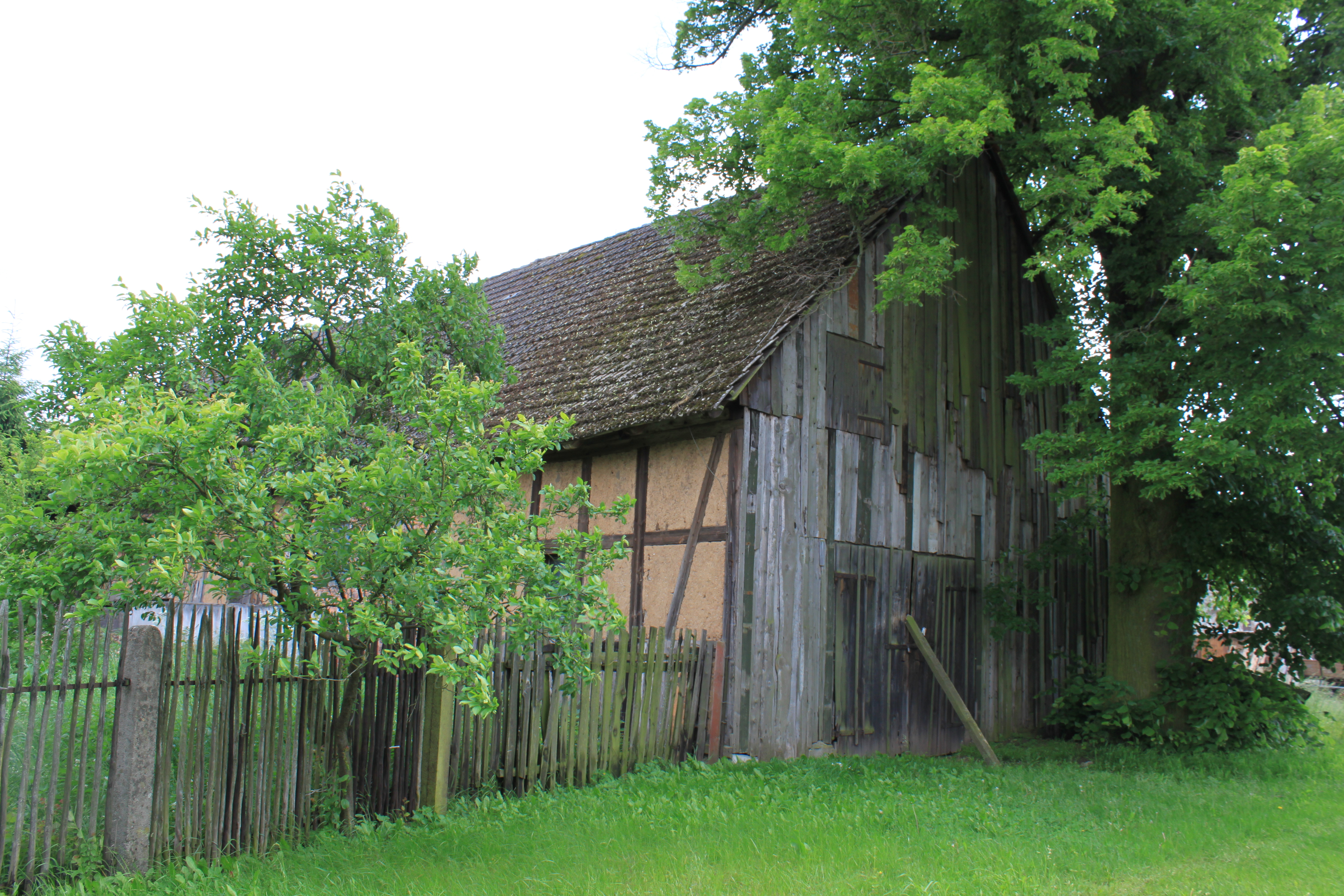 Proßmarke